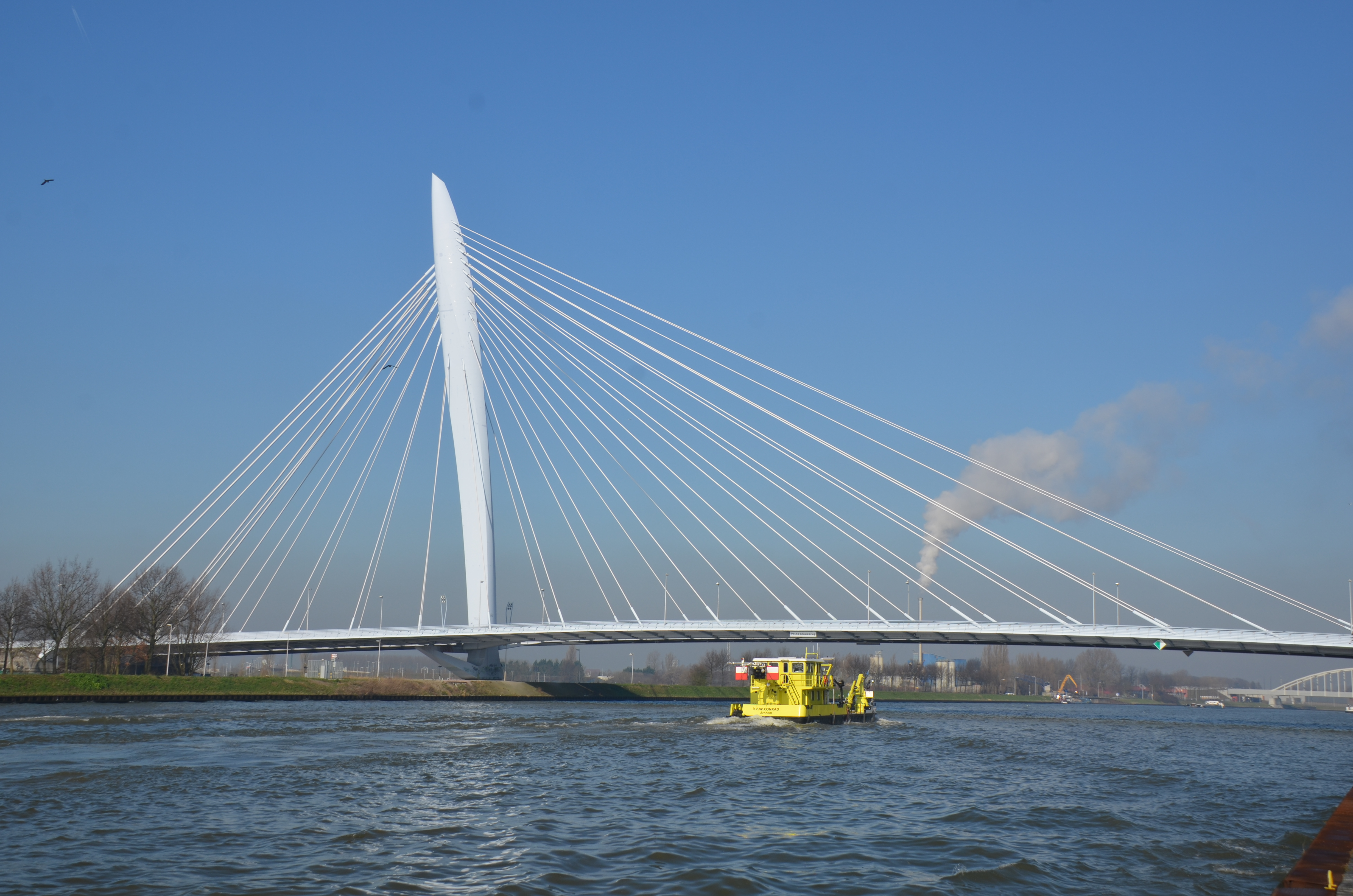 The Ben van Berkel cable stayed bridge across the Amsterdam-Rhine canal Utrecht